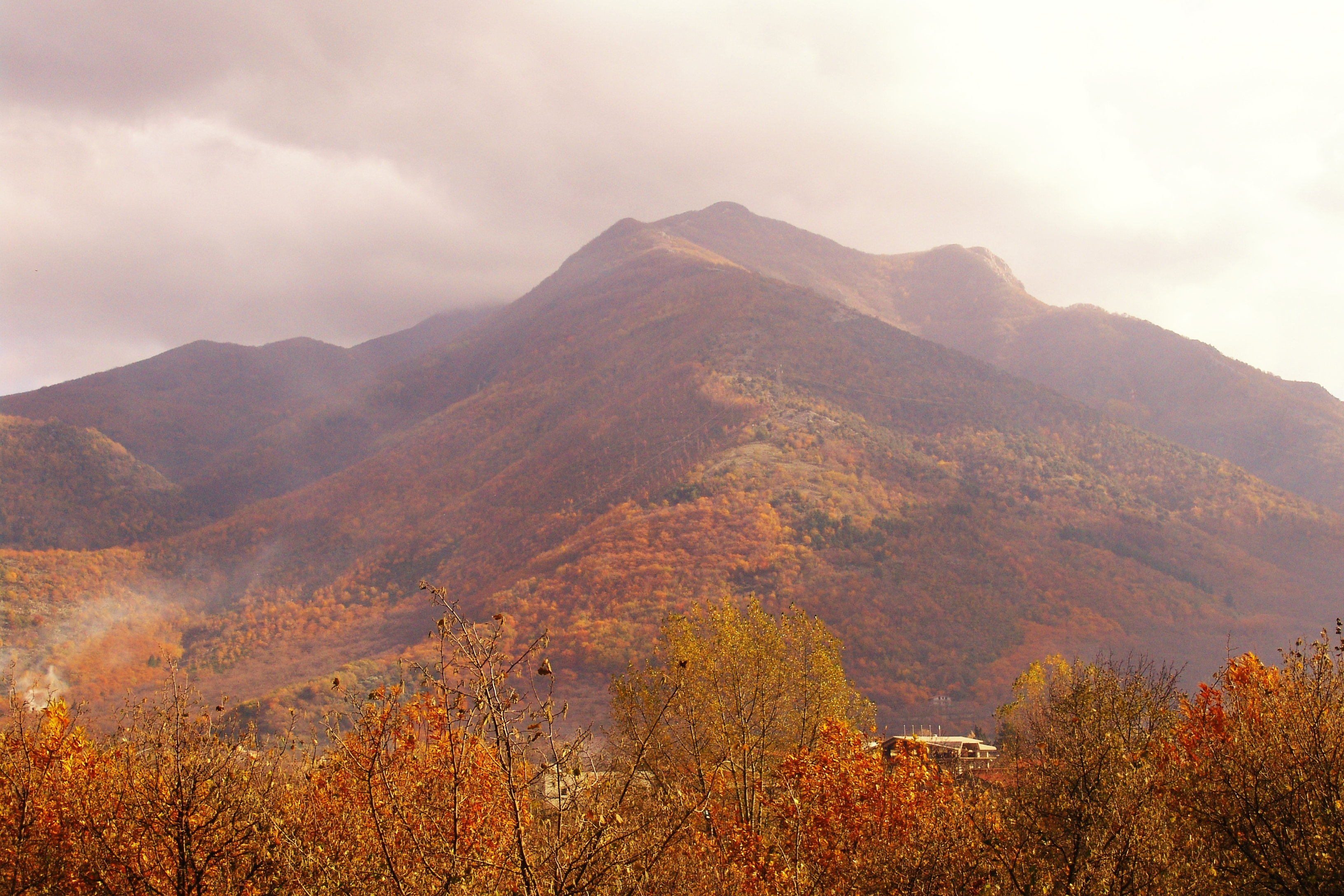 Mount Terminio